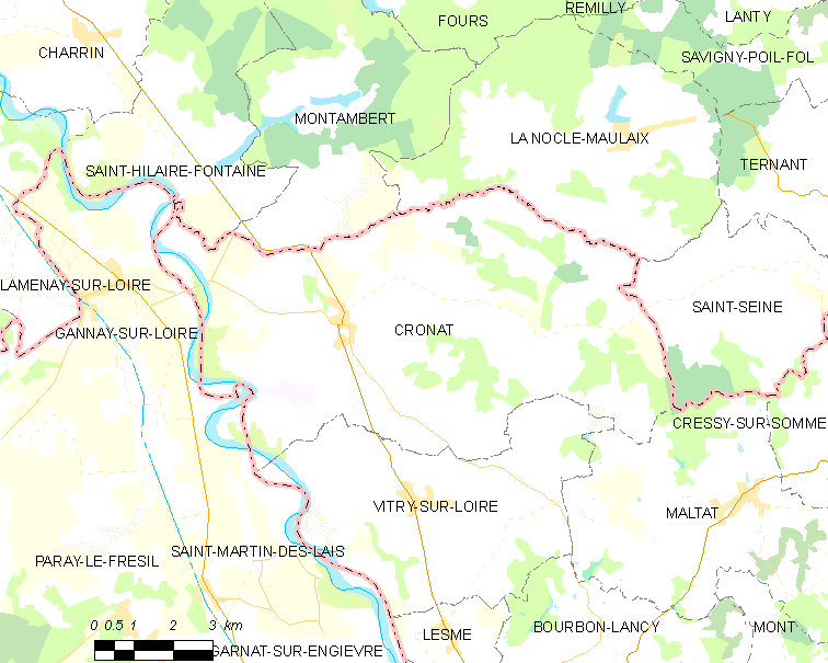 Map of French municipality